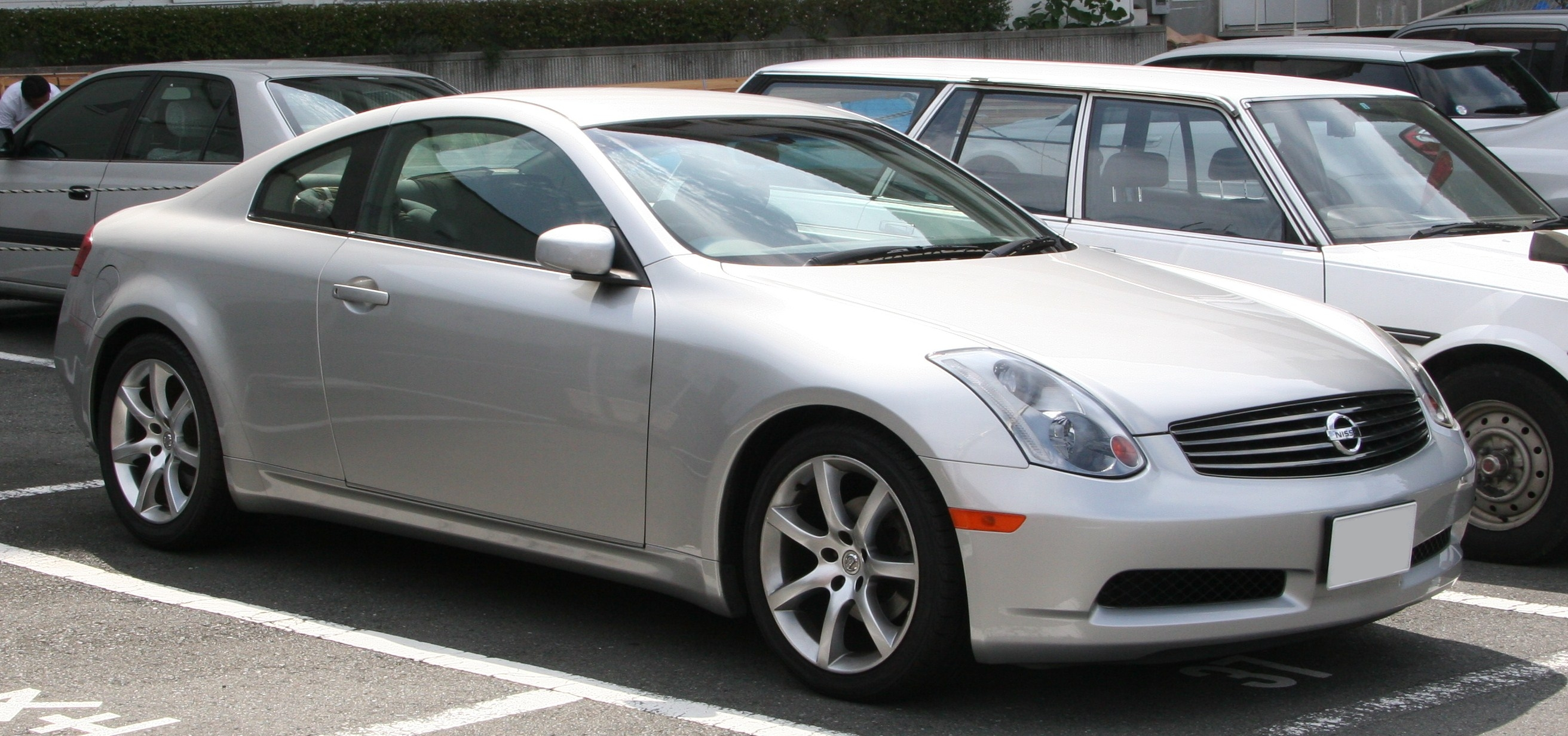 NISSAN SKYLINE COUPE